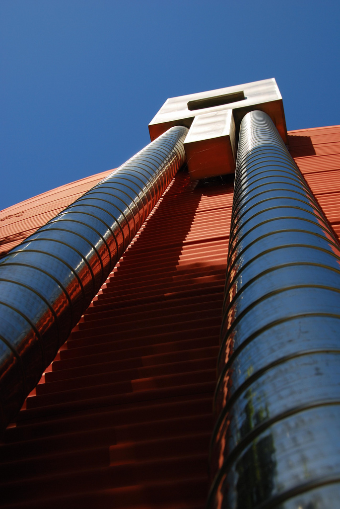 One of the buildings of the Griffith University in Brisbane, Australia